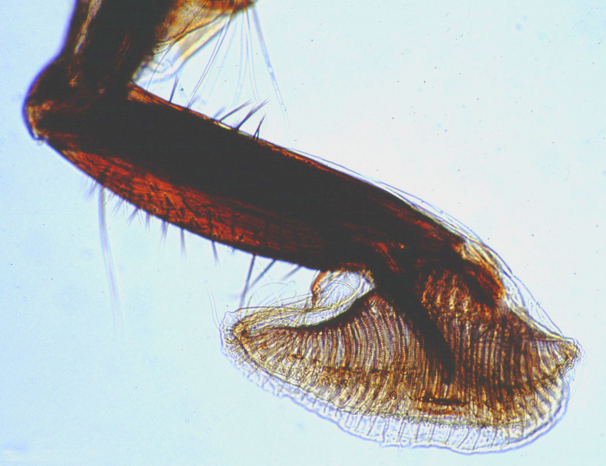 Sponging mouthparts of adult Calliphora dipteran fly.